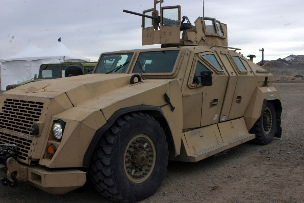 The Office of Naval Research Combat Tactical Vehicle (Technology Demonstrator) rests on its hydraulic system at the shipping clearance height of 76.4 inches at the Nevada Automotive Testing Center (NATC), outside Carson City, Nev. NATC and military contractors displayed possible vehicle replacements for the Marine Corps to the motor transportation community on Feb. 7.